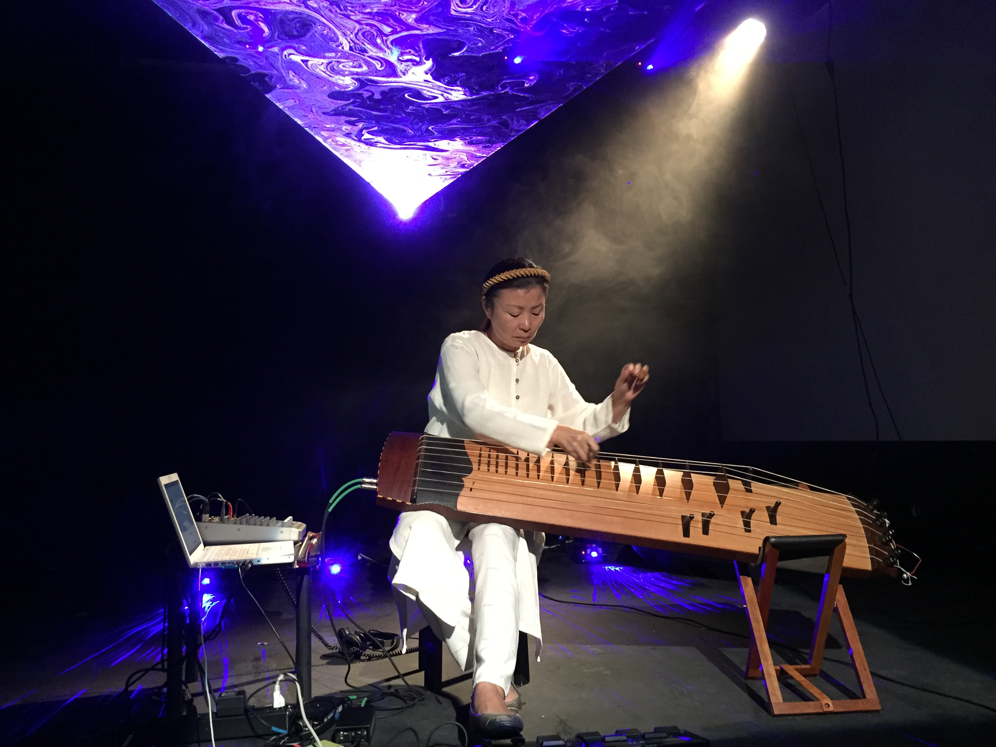 Jin Hi Kim plays an electric komungo live on stage using a laptop computer.